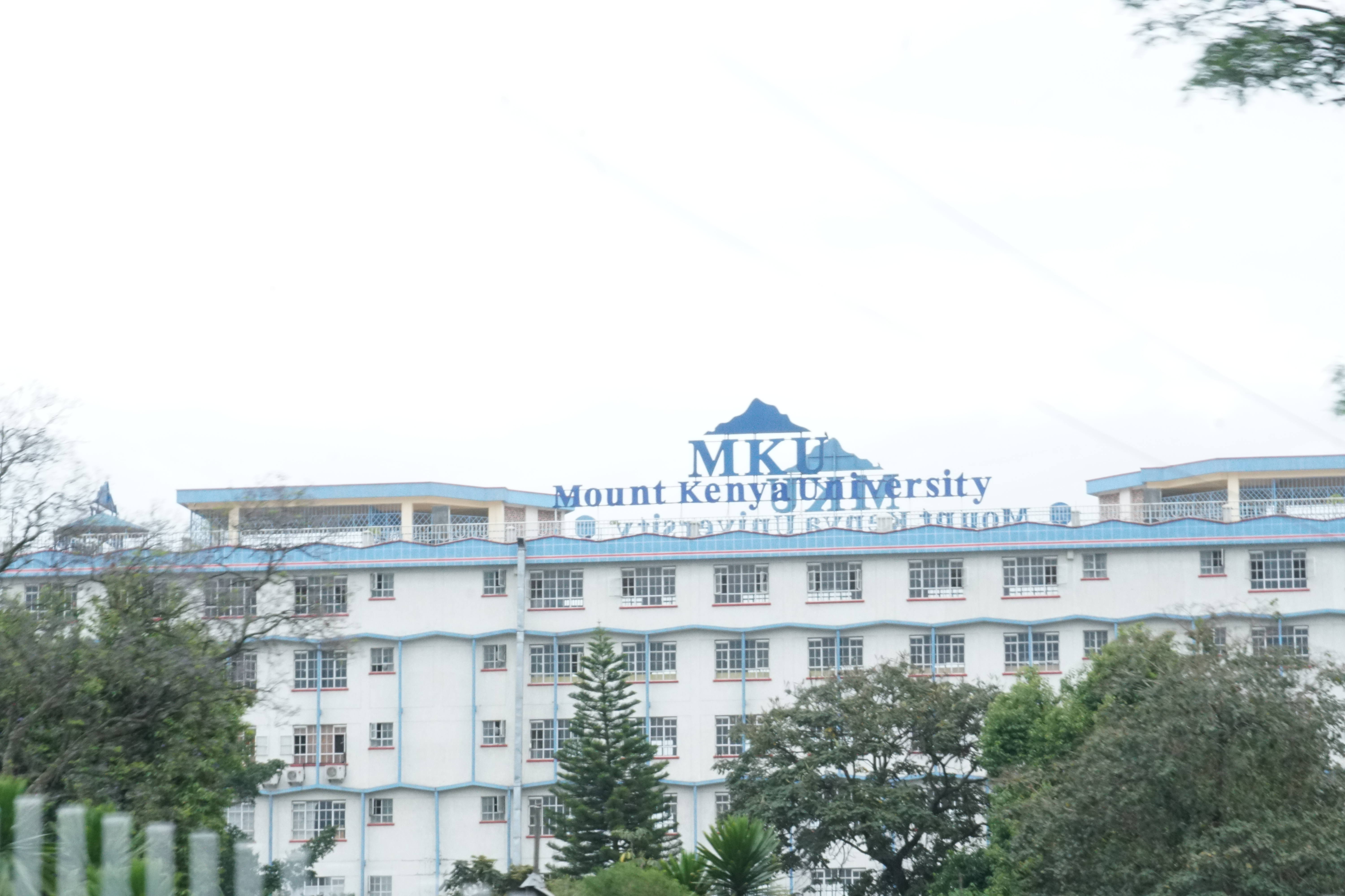 The Great Rift Plaza houses the Mount Kenya University in Nakuru. MKU is one of the major private universities in Kenya.